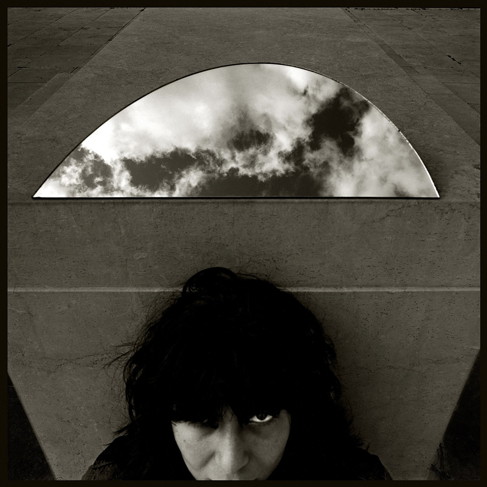 Black and White - Augusto De Luca photographer